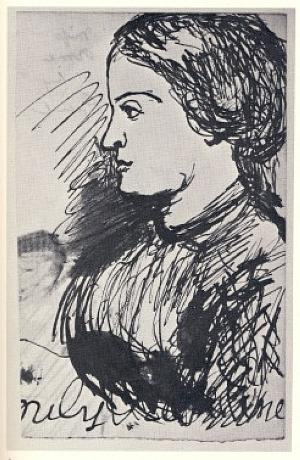 Emily Rosaline Orme by Dante Rossetti in 1852-4